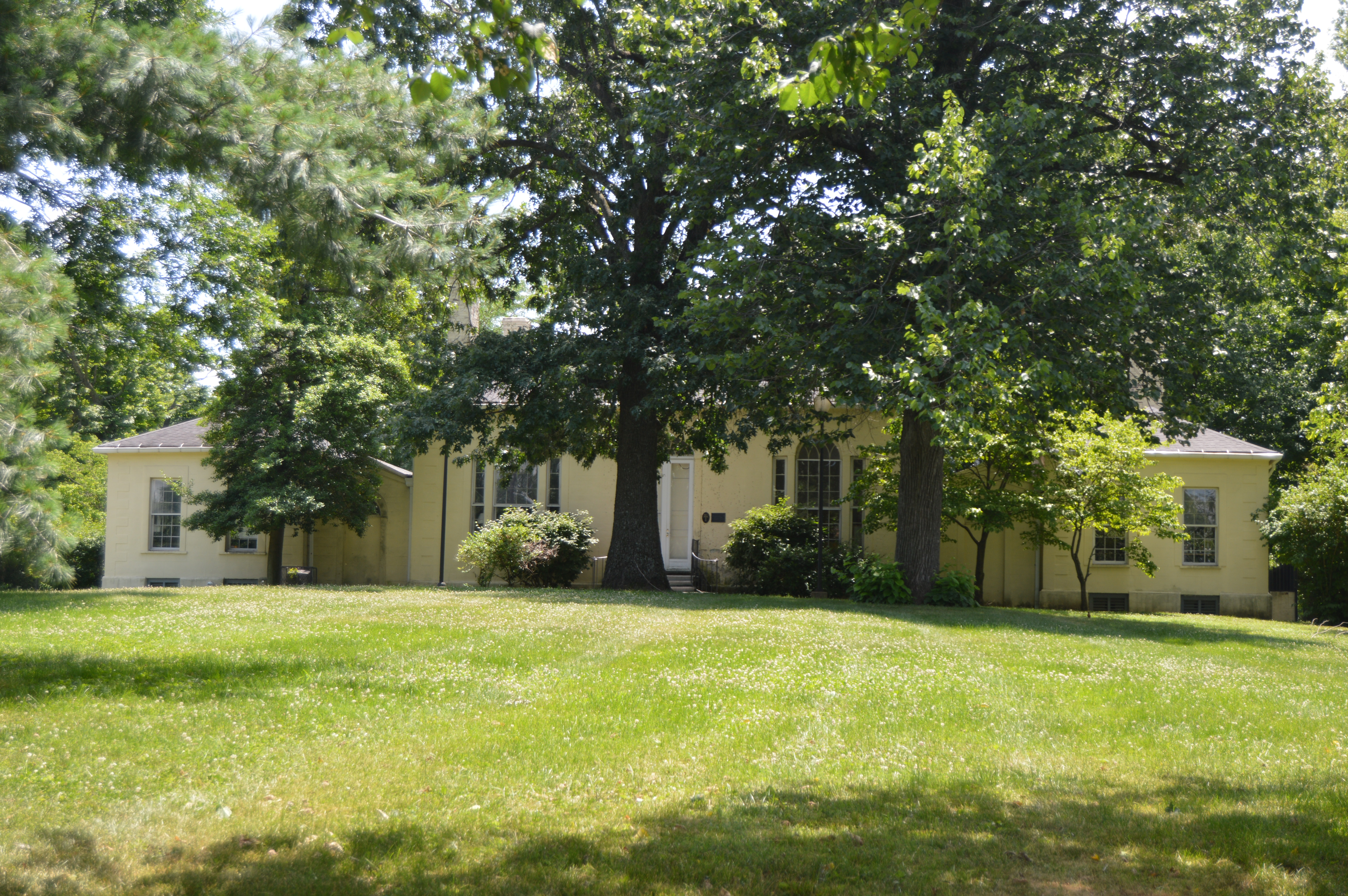 Front of the William Morton House, located at 518 Limestone Street in Duncan Park in Lexington, Kentucky, United States. Built in 1810, it is listed on the National Register of Historic Places, and it is part of a Register-listed historic district, the Northeast Residential Historic District.